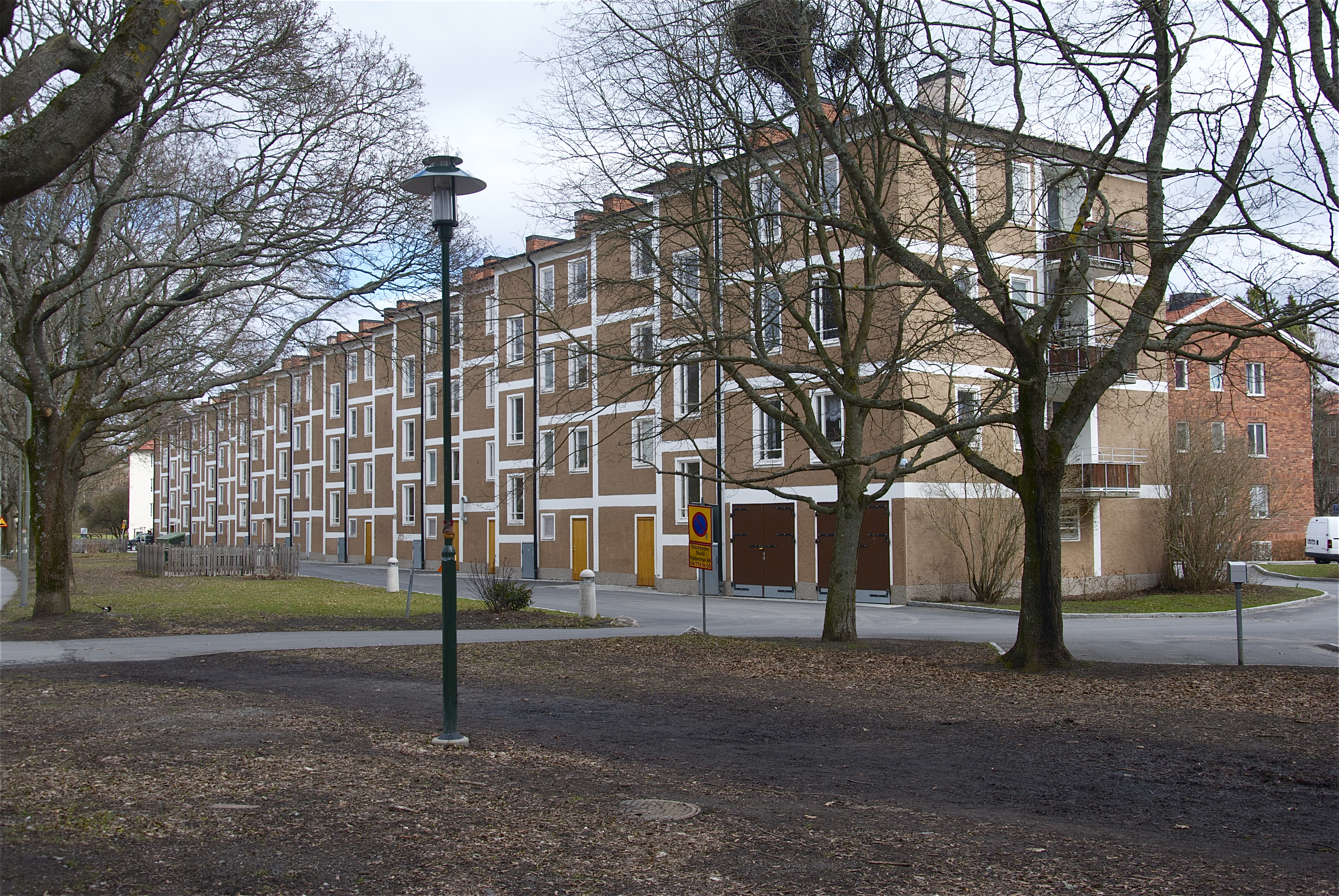 Fagersjövägen, Hökarängen.